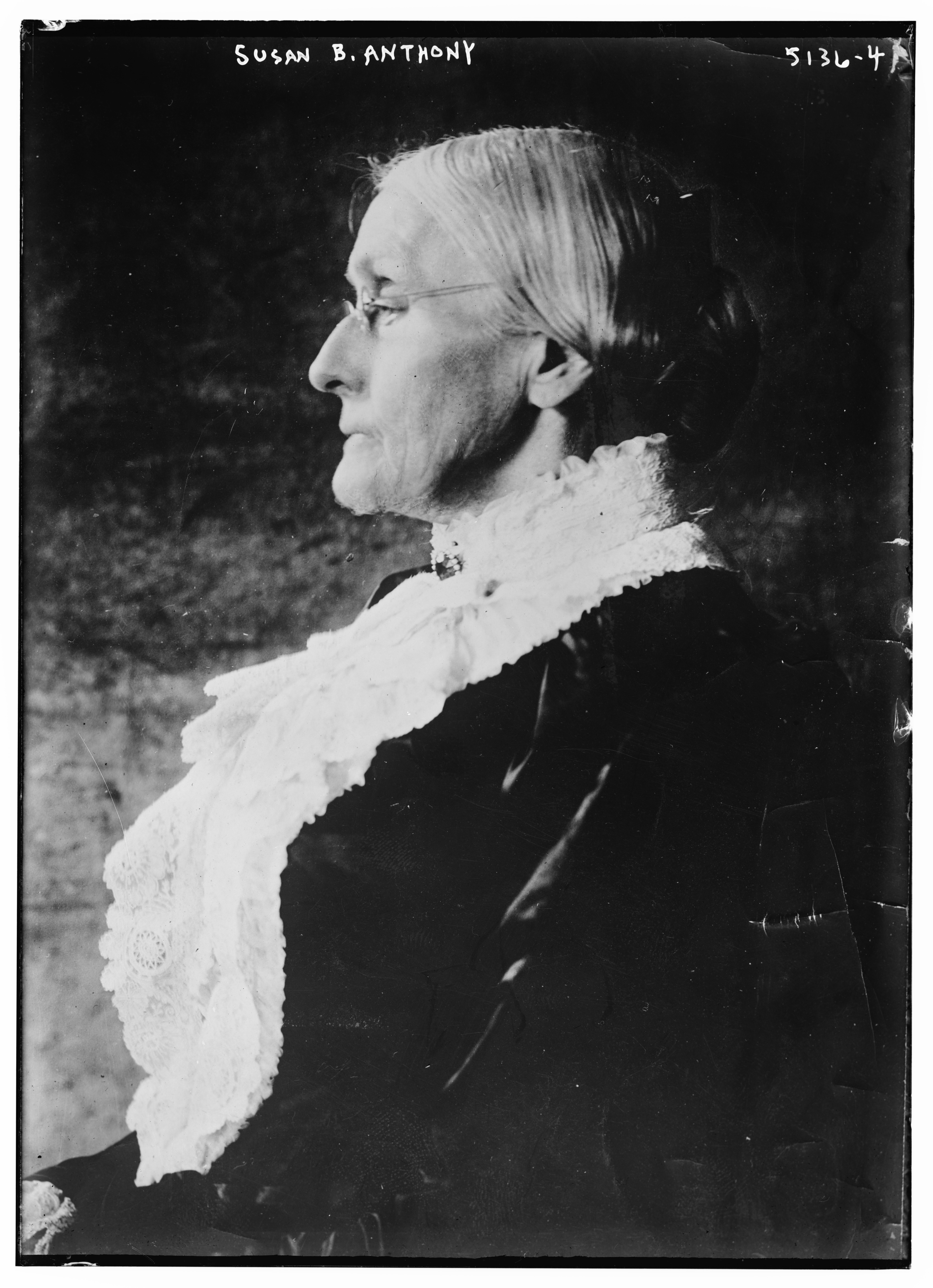 Portrait of Susan B. Anthony taken in 1900, when she was 80 years old.